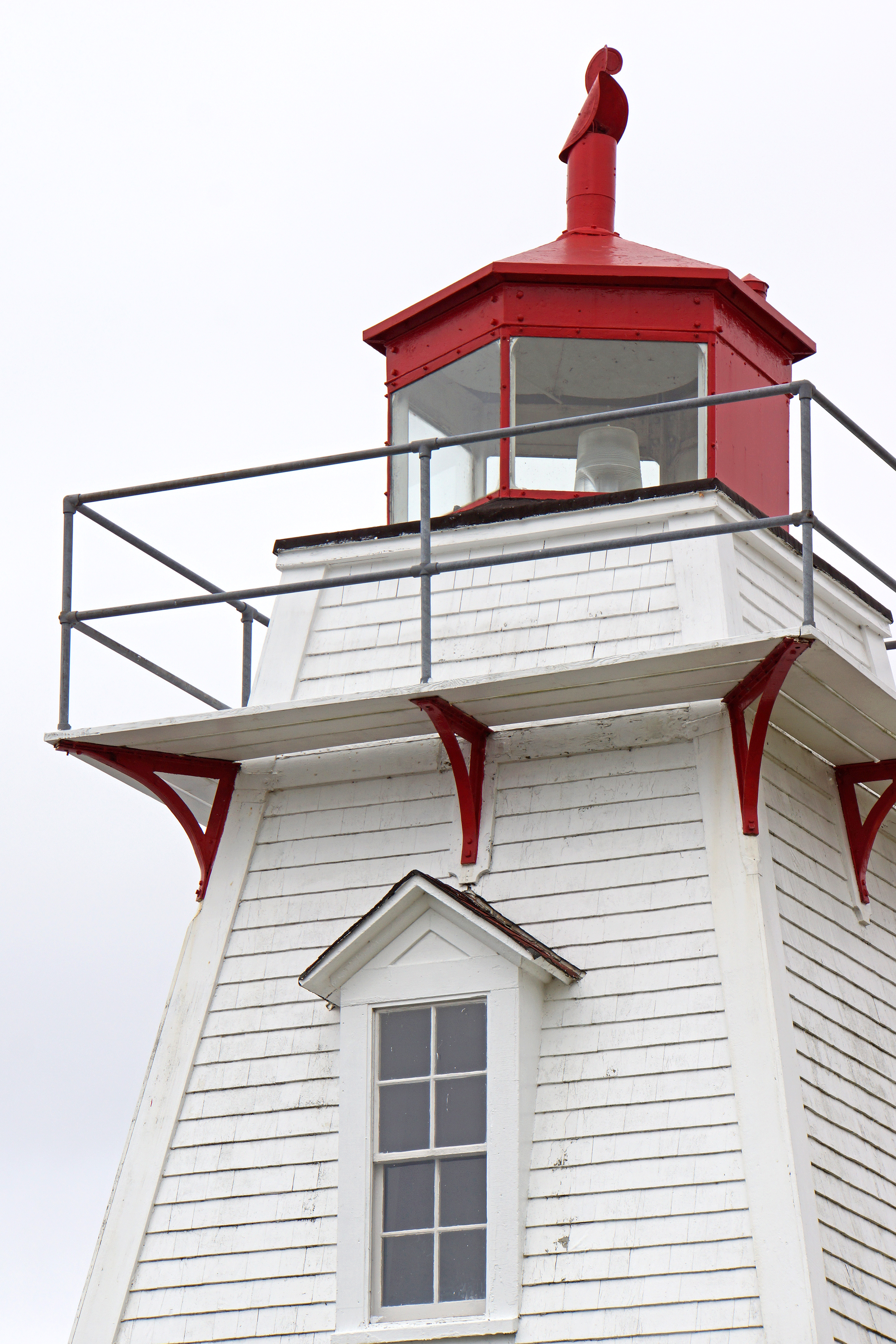 PLEASE, NO invitations or self promotions, THEY WILL BE DELETED. My photos are FREE to use, just give me credit and it would be nice if you let me know, thanks. The lighthouse is on Shafner's Point, on the north side of the Annapolis River, in the County of Annapolis. Location: On point, near Port Royal, west side of river Operating: This light is operational Began and Lit: 1885 Structure Type: White tapered square wooden tower with a red lantern Tower Height: 13 meters (43ft) Light Height: 16.8 meters (55ft) above water level